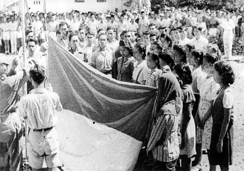 The flag of Indonesia is raised in front of witnesses on 17 August 1945. Final photo of three by Frans Mendur during the Indonesian Declaration of Independence.